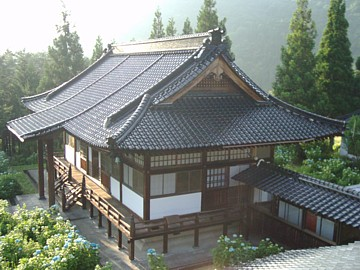 The main hall of Antaiji Temple at Hyōgo Prefecture, Japan